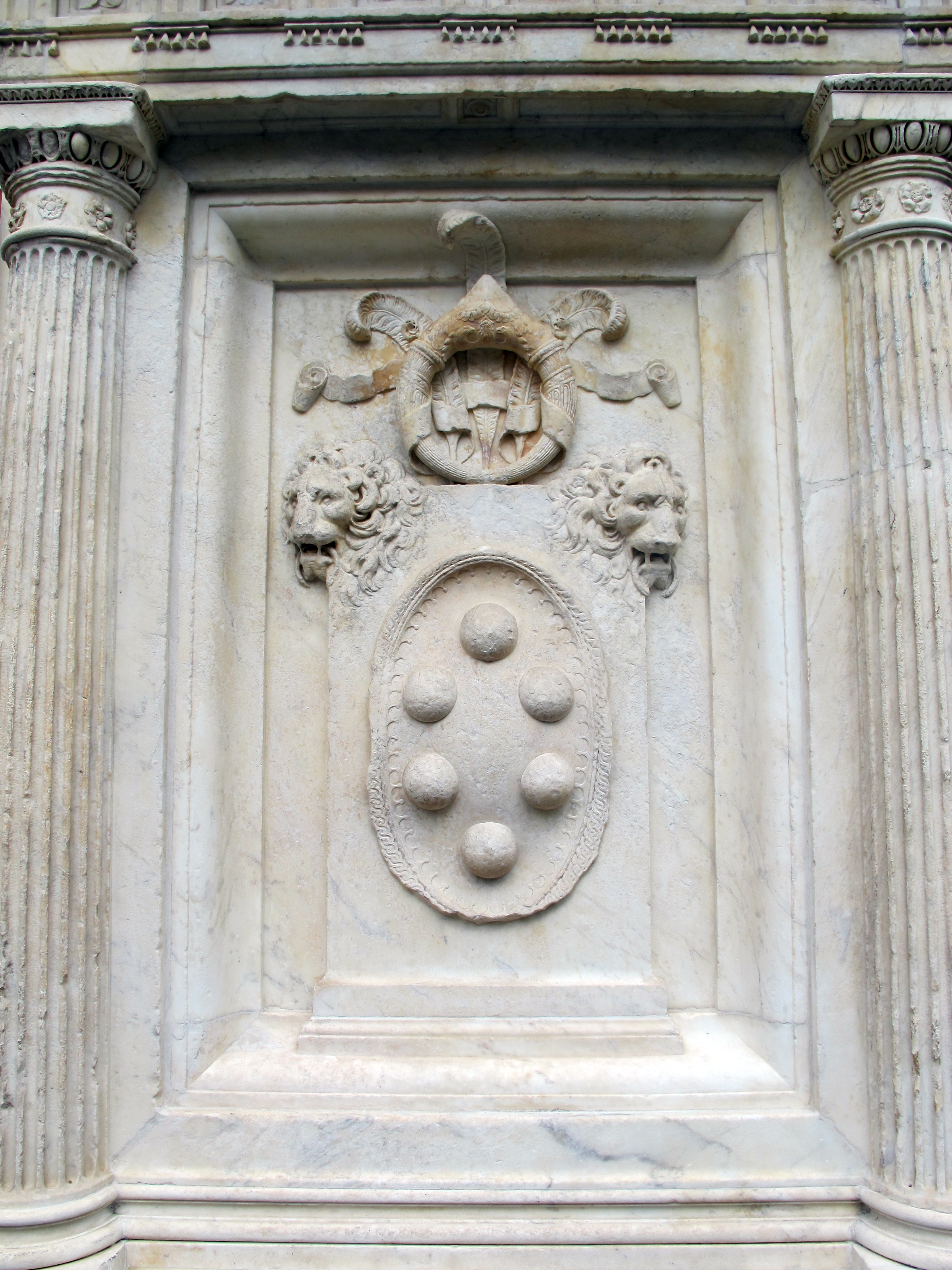 Monument to Giovanni delle Bande Nere (Florence)